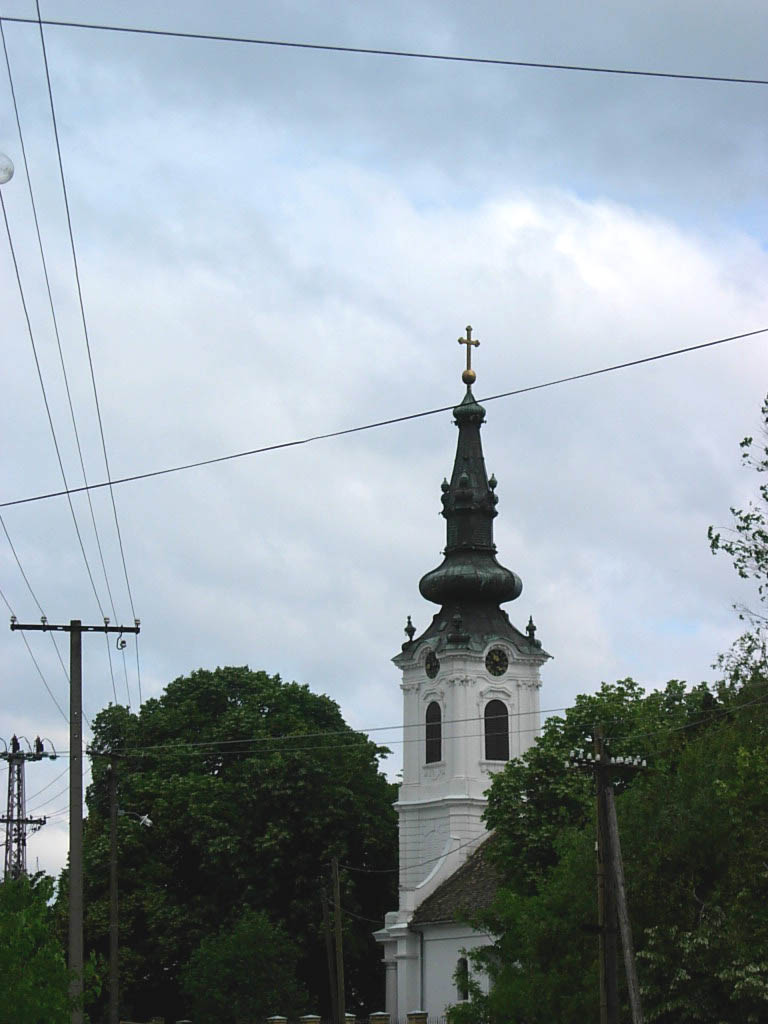 The Orthodox Church in Despotovo.